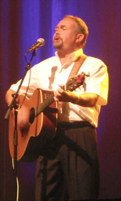 Frank Hennessy at An Oriant